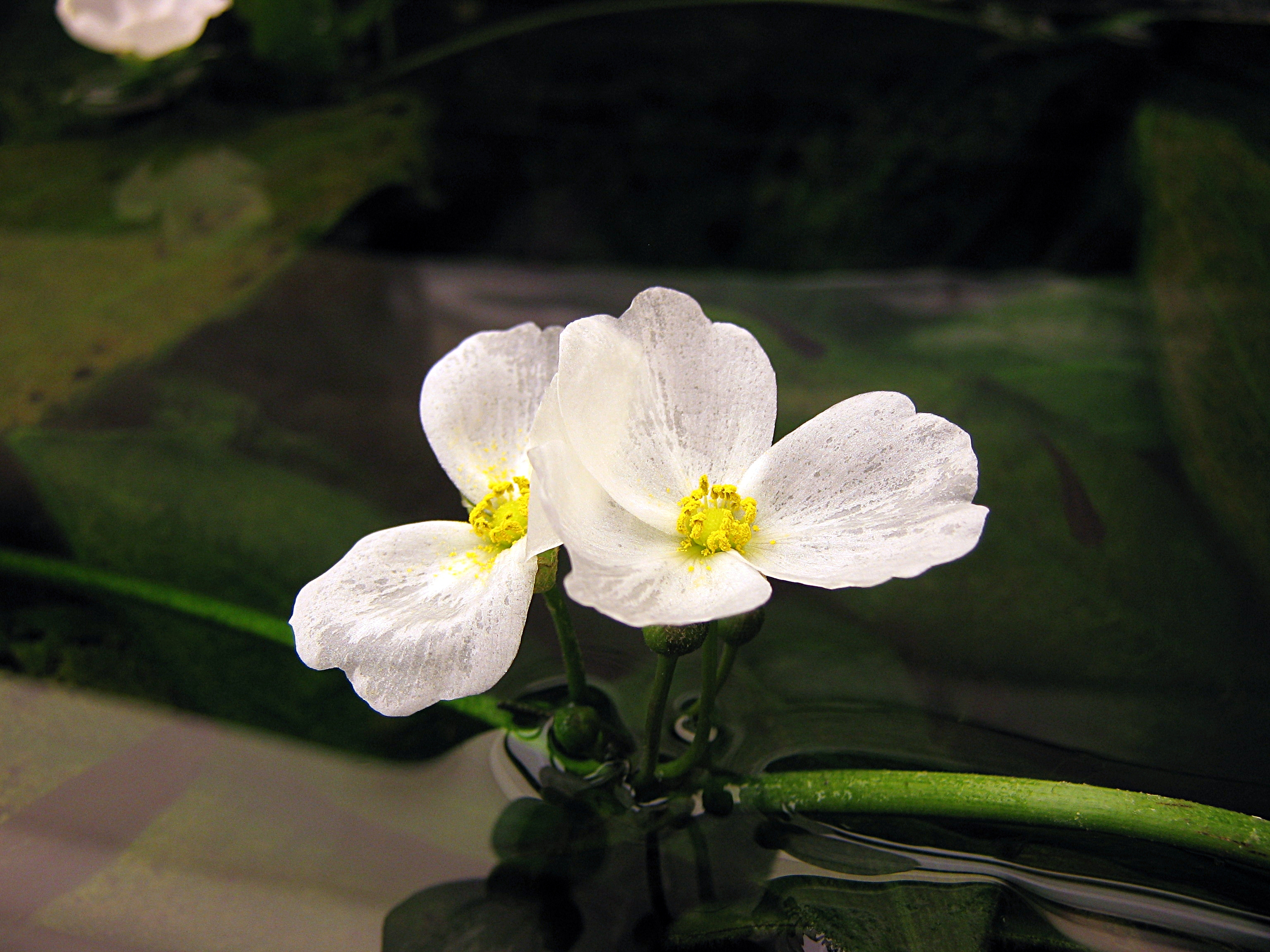 Echinodorus muricatus blossoming during growth in Aquarium